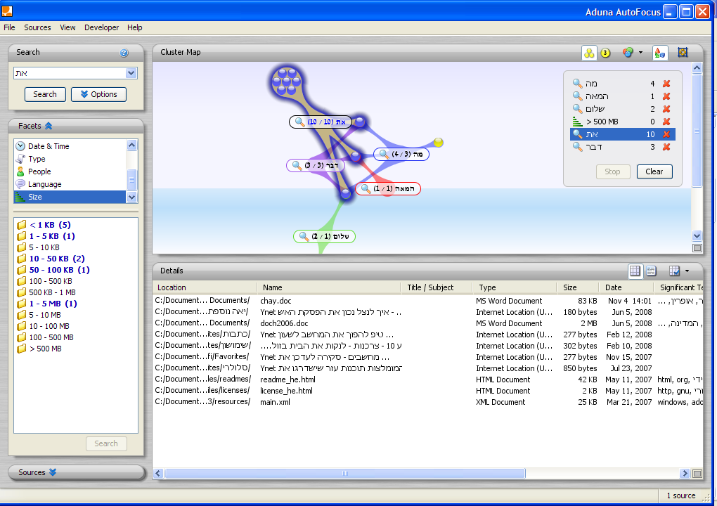 screenshot of then OSL Desktop Search engines software Aduna AutoFocus 5.